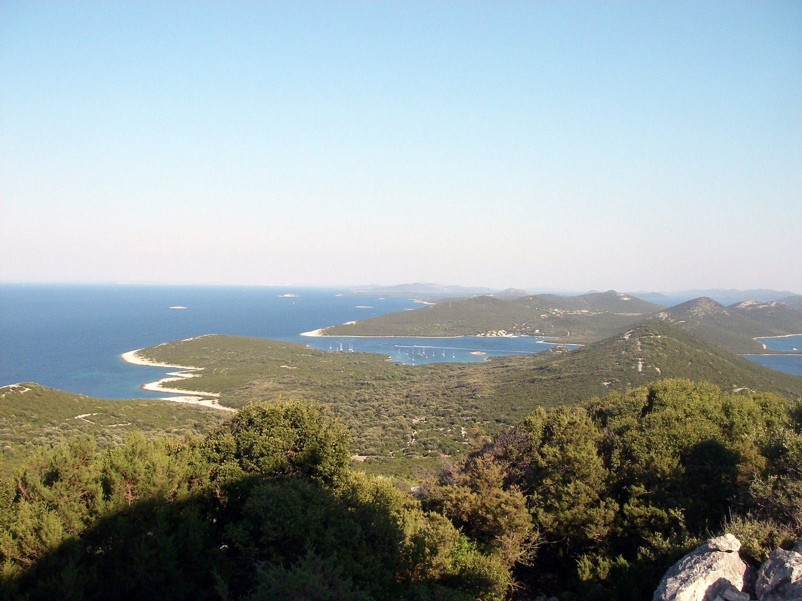 In the southeast part of the island of Ist and view on the island Molat (port Zapuntel).